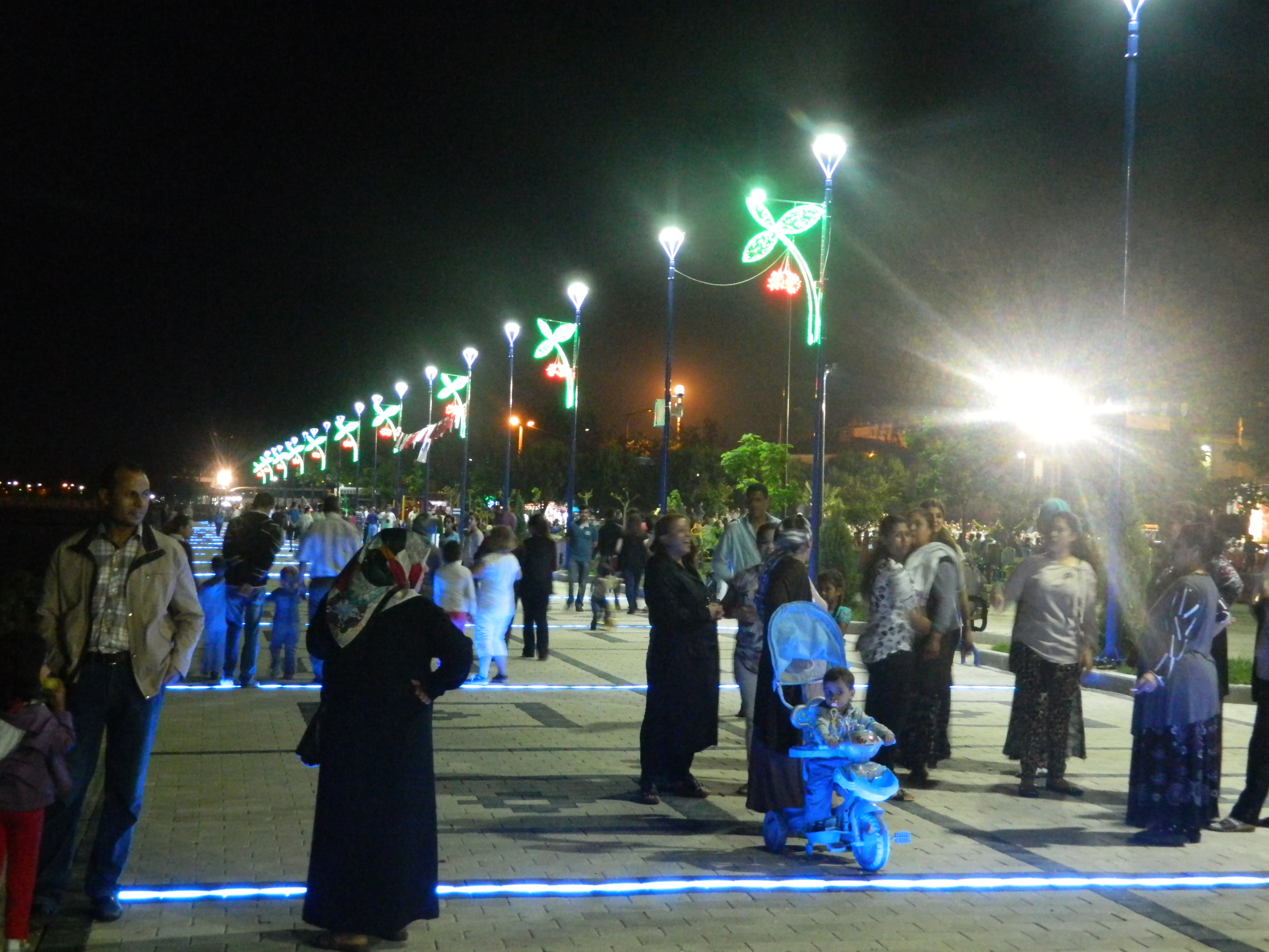 Batı Sahili